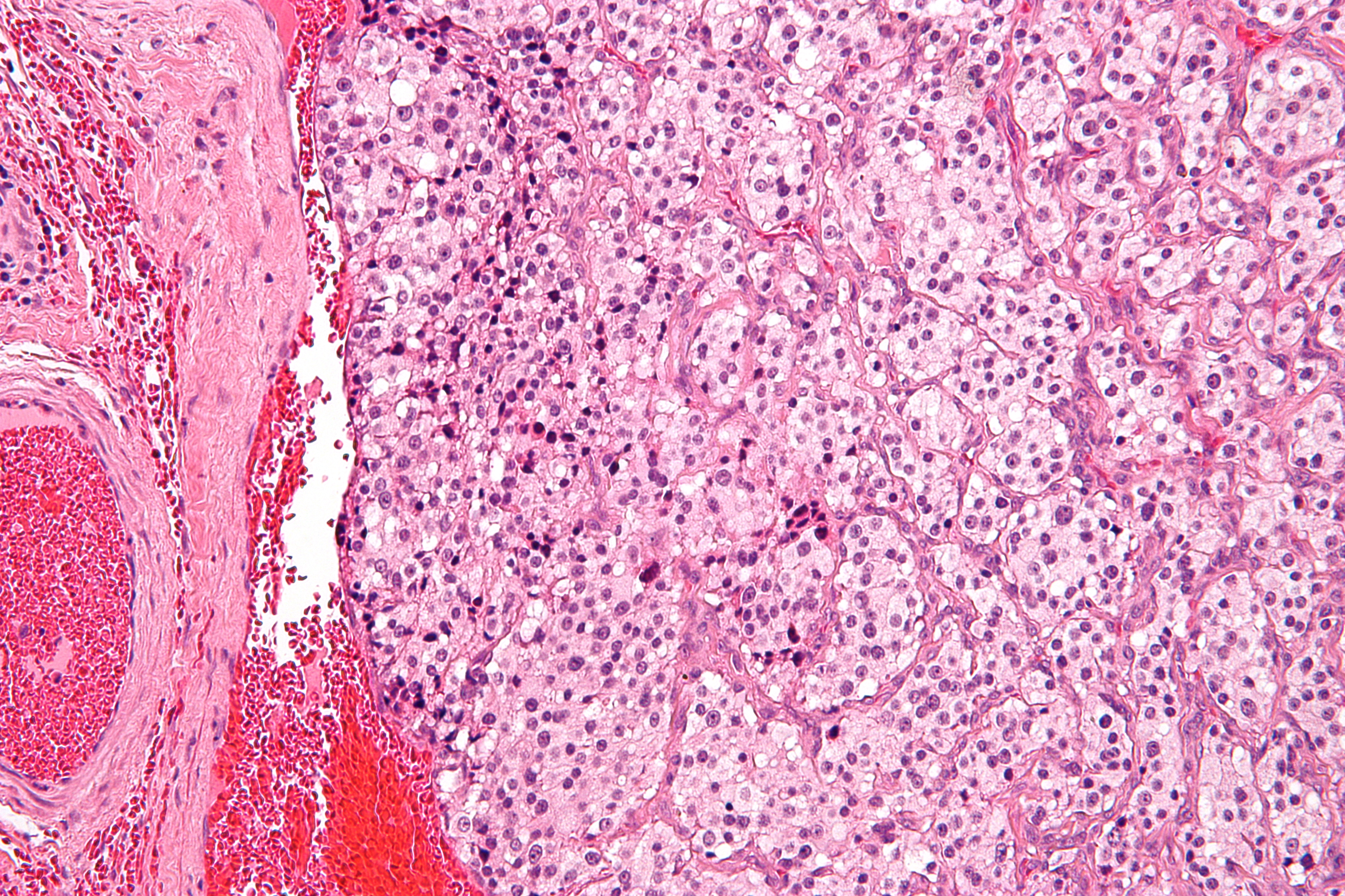 Intermediate magnification micrograph of a carotid body tumour, a paraganglioma. H&E stain. Pheochromocytoma is the most common type of paraganglioma. Histomorphologic features of paragangliomas: Zellballen ("cell balls" in German) - nests of cells. Fibrovascular septae. Finely granular cytoplasm (salt-and-pepper chromatin). Related images Low mag. High mag. High mag.